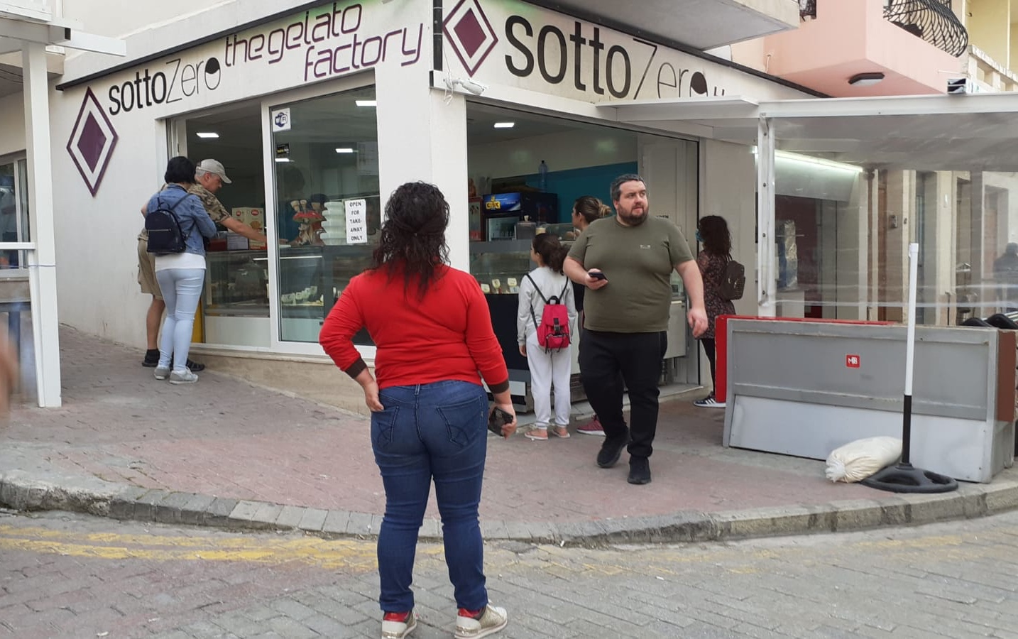 April Malta